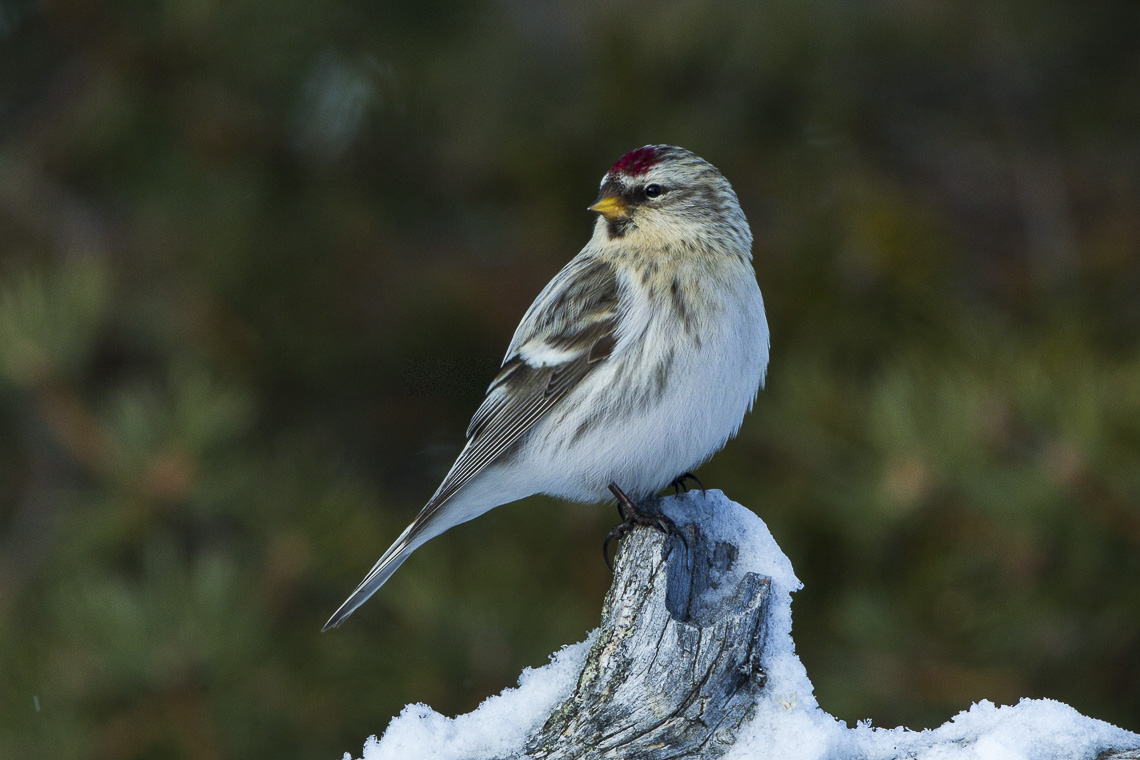 Arctic Redpoll - Finland_S4E4666